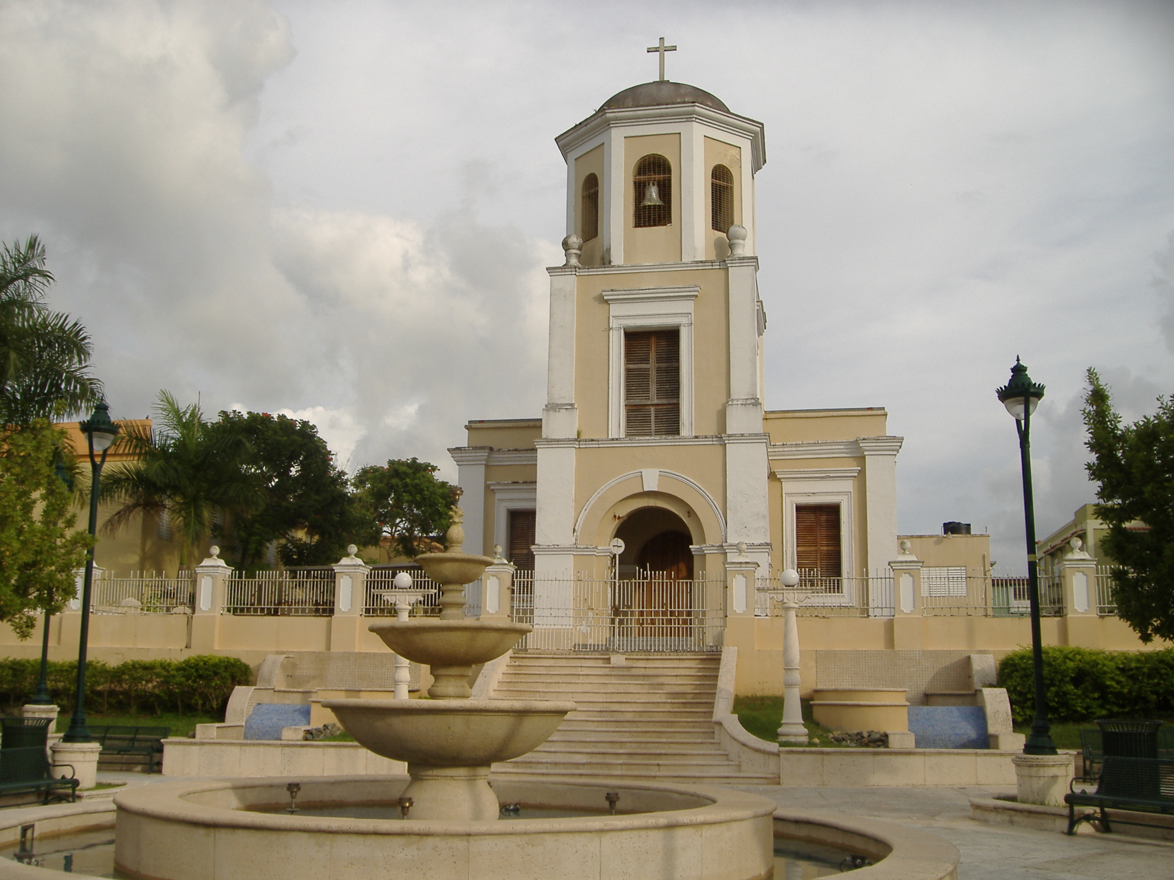 Catholic church in the town plaza of San Lorenzo, Puerto Rico town hall.